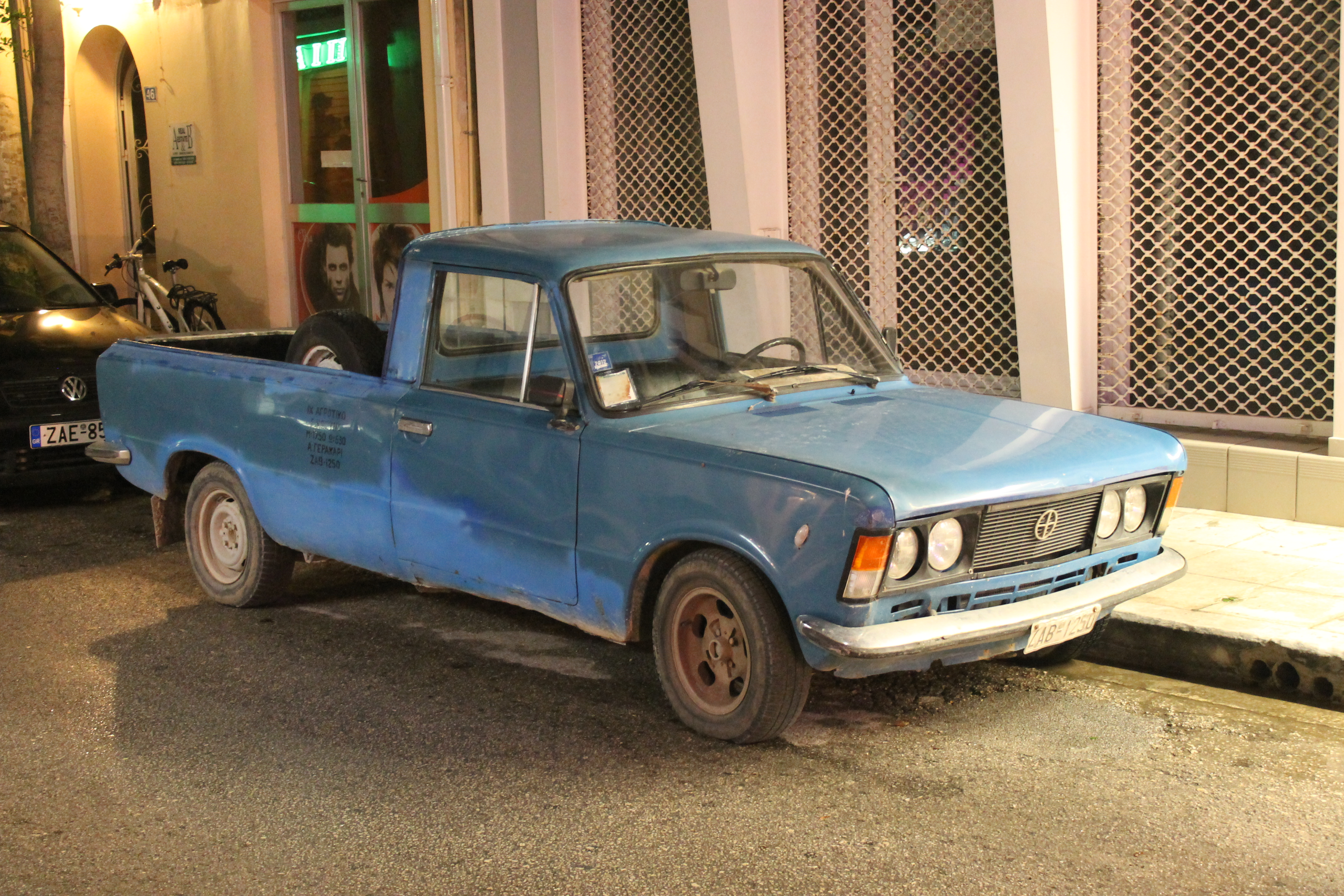 Here's one which must be pretty rare nowadays. Certainly the most interesting pick-up I've come across on my Greek trip. It's an FSO 125p pick up truck (coupe utility). I'm not sure of the date, but it's probably from the 1980s. This is also the first FSO I've found anywhere outside a show. Built by the Polish manufacturer Fabryka Samochodów Osobowych (not the catchiest name!)